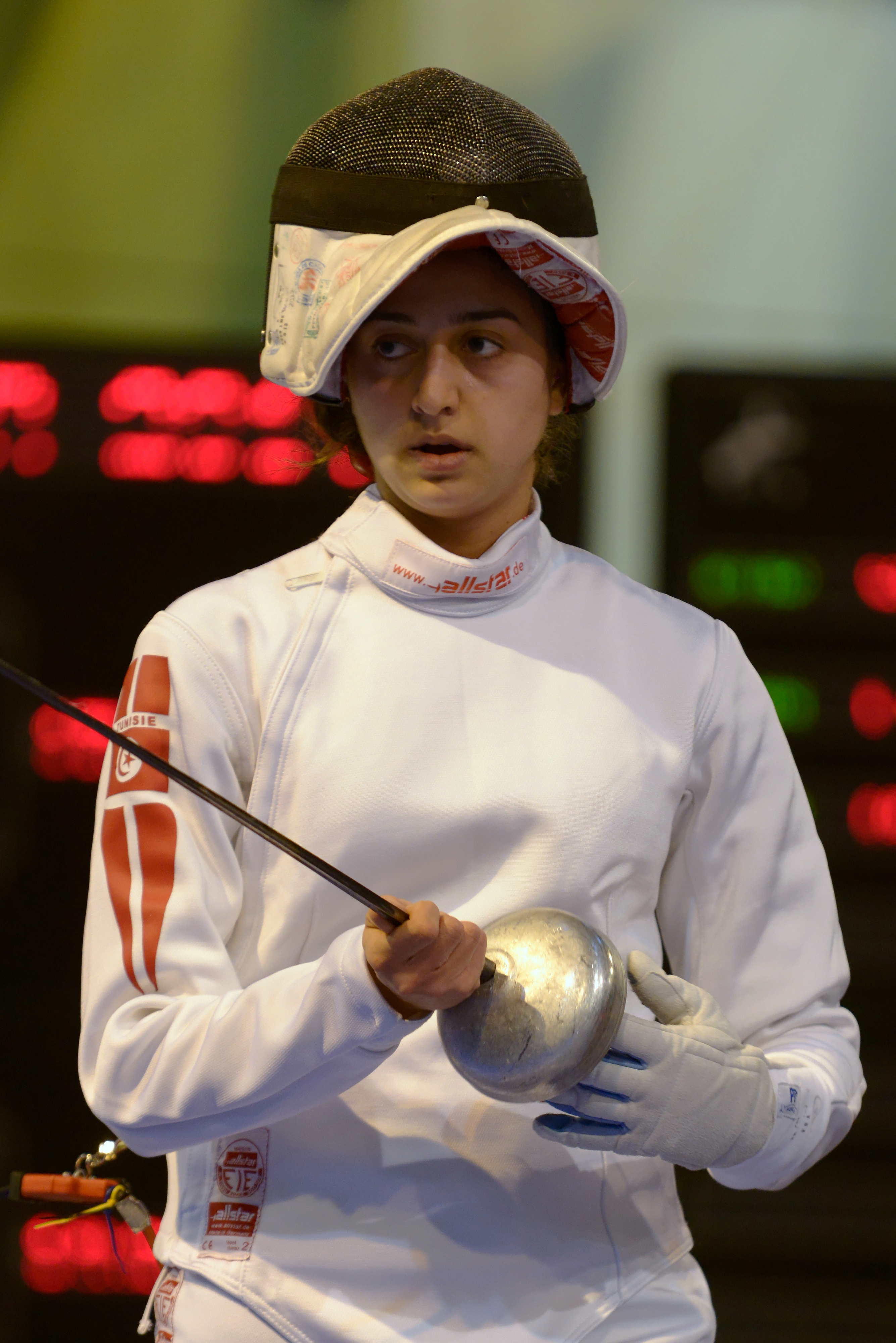 Tunisia's Sarra Besbes at the 2014 Challenge International de Saint-Maur (women's épée World Cup).